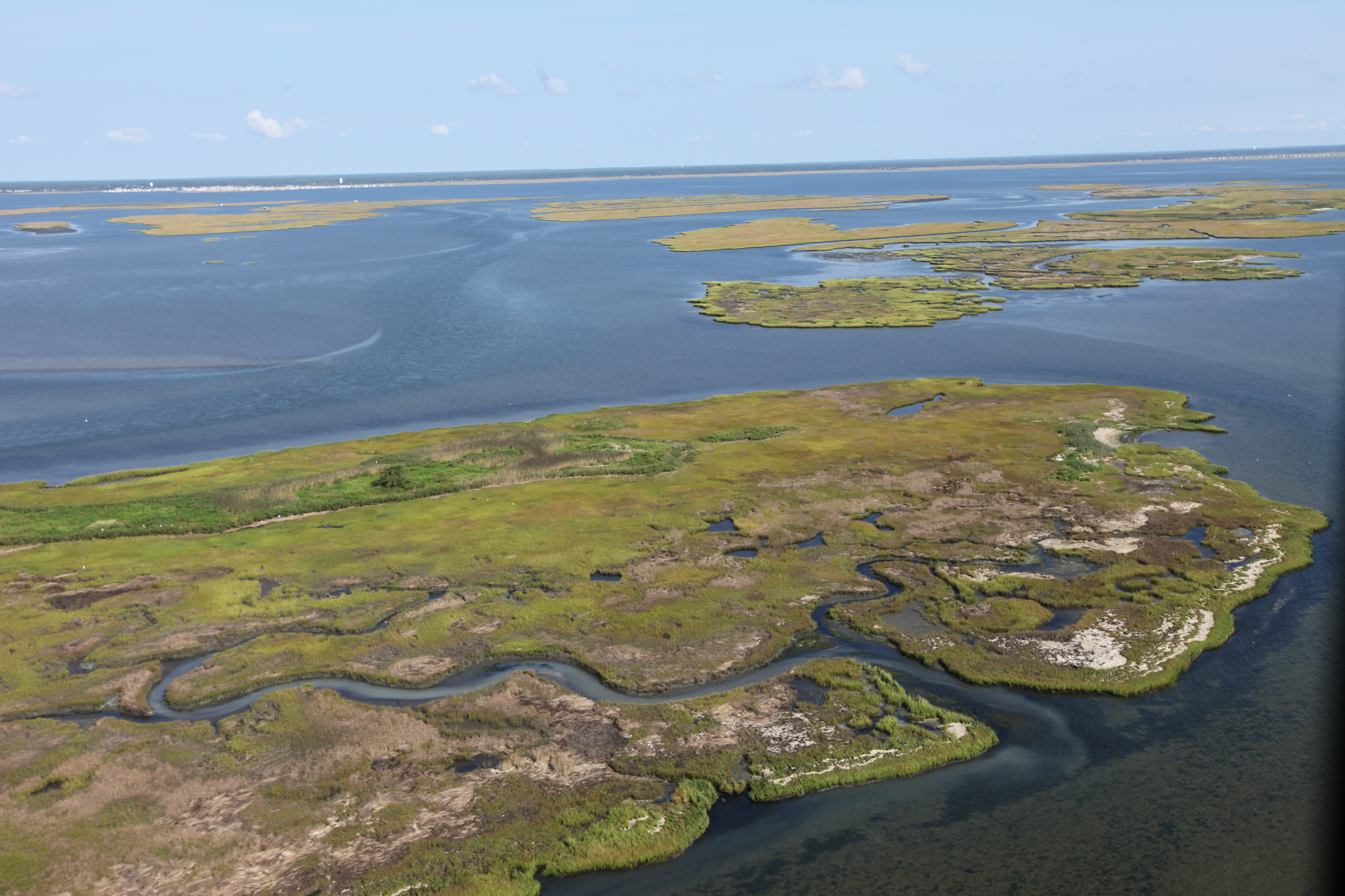 Credit: Keith Shannon/USFWS Find out more about the trip at Stay up to date on Hurricane Sandy recovery and resiliency projects at Like us on Facebook Follow us of Twitter